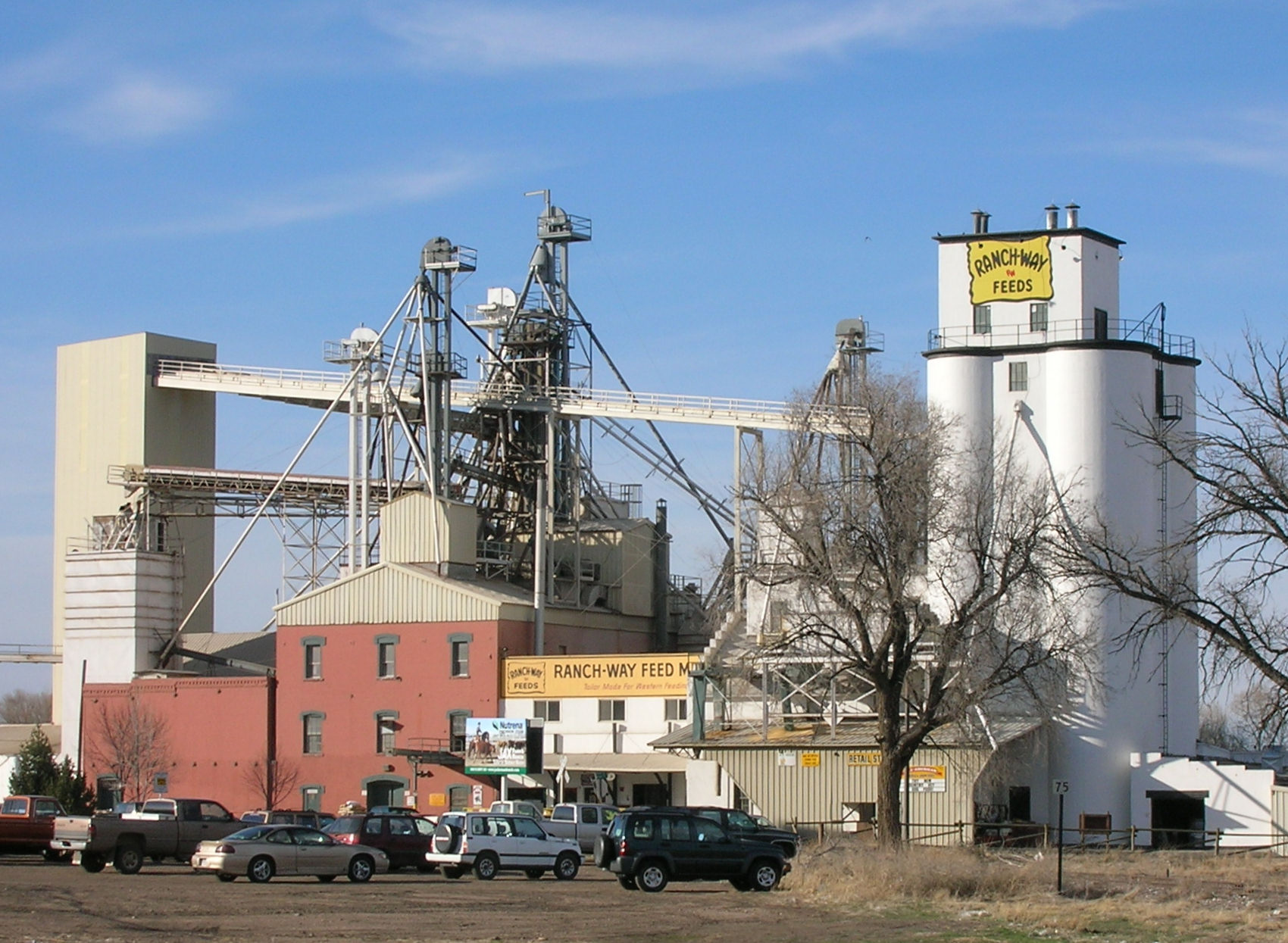 Ranchway Feeds, Fort Collins, Colorado / 2006